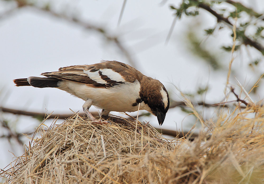 A White-browed Sparrow-weaver in Samburu National Reserve, Kenya.